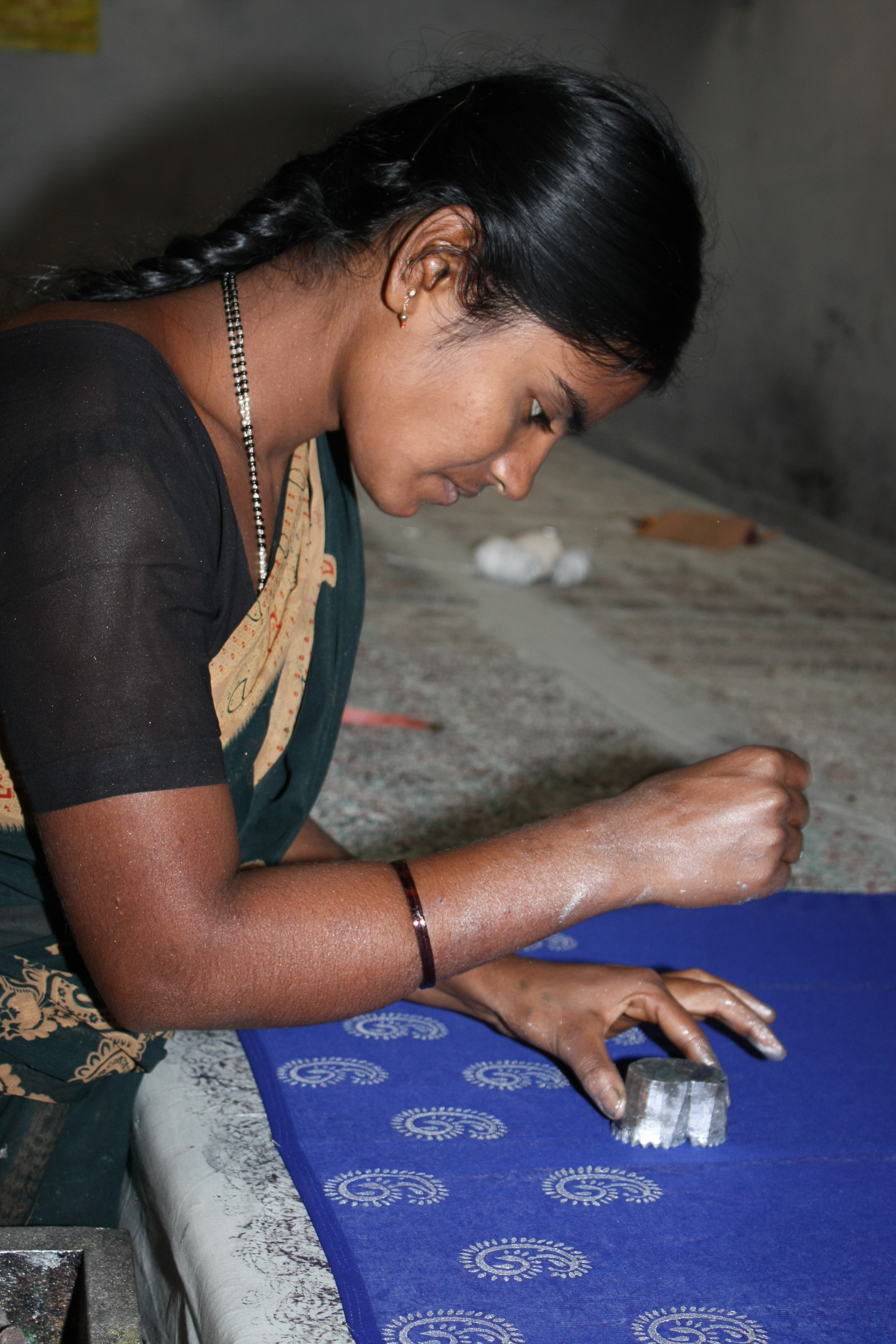 Deepa means Lamp in Kannada. In quiet Halasur village (Kanakapura Taluk) around 15 women have become skilled in the traditional technique of hand blocked printing and produce clothing, accessories and home furnishings.